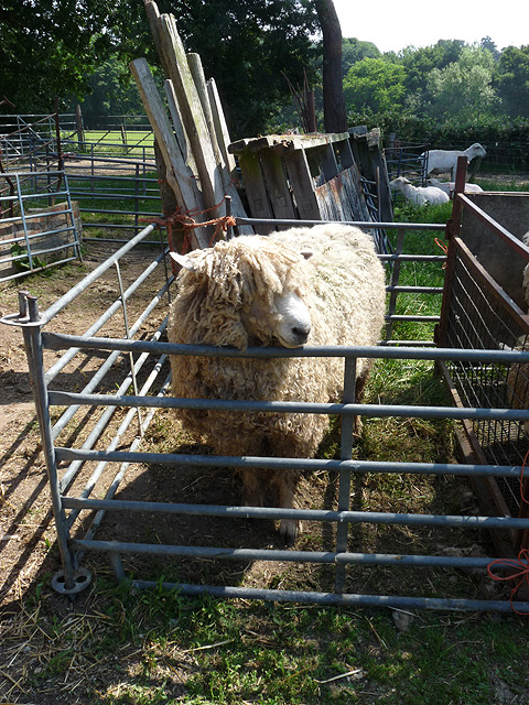 Sheep-shearing 2: before and after The Lincolnshire Longwool ram in the foreground is still hot under his thick fleece while his mates in the background are presumably feeling suddenly cool. For the whole series summarised, see 6975792 or for members